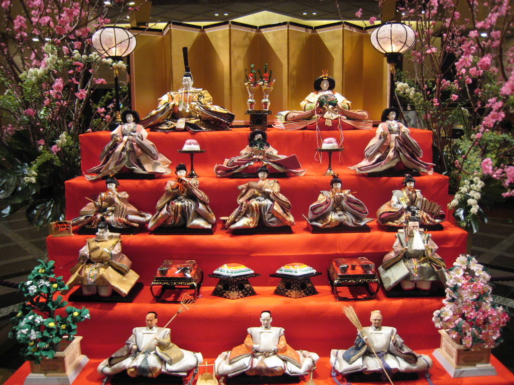 Hina matsuri doll display